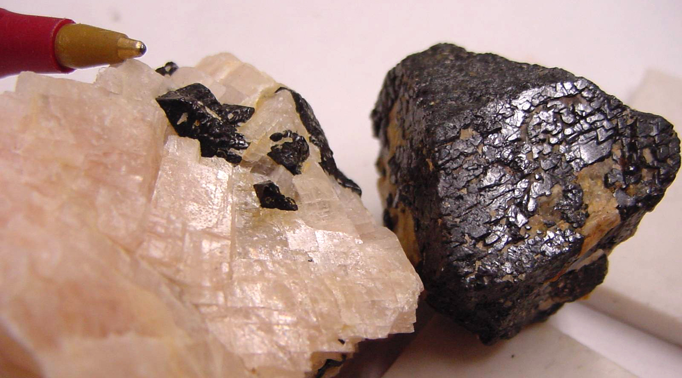 Gahnite, no locality given BYU index 4-6005, ZnAl2O4. Mineral collection of Brigham Young University Department of Geology, Provo, Utah. Photograph by Andrew Silver.